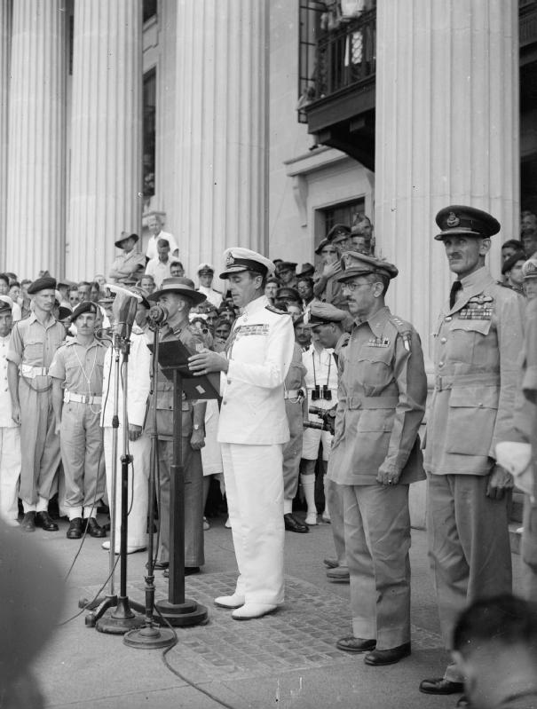 Supreme Allied Commander South East Asia: The Japanese surrender in Singapore: Admiral Mountbatten delivering an address on the steps of the Municipal Building at Singapore after the surrender ceremony. Left to right: General William Slim (in slouch hat), Admiral Lord Mountbatten (at microphone, in white), Lieutenant General Wheeler US Army, Air Chief Marshal Sir Keith Park.